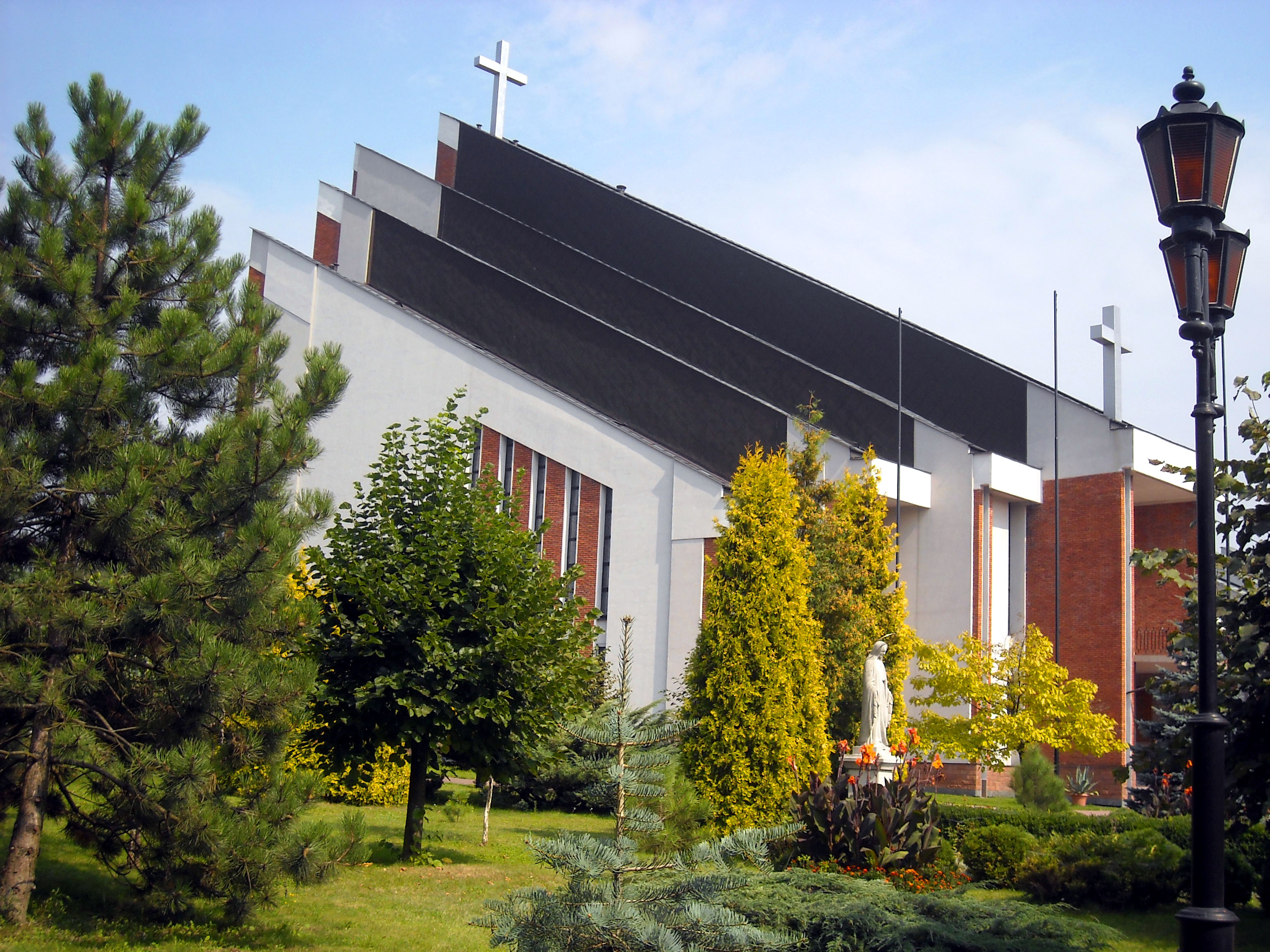 Grounds of The Catholic Church of the Mercy of God at Nałkowskich Street in the Wrotków district, Lublin